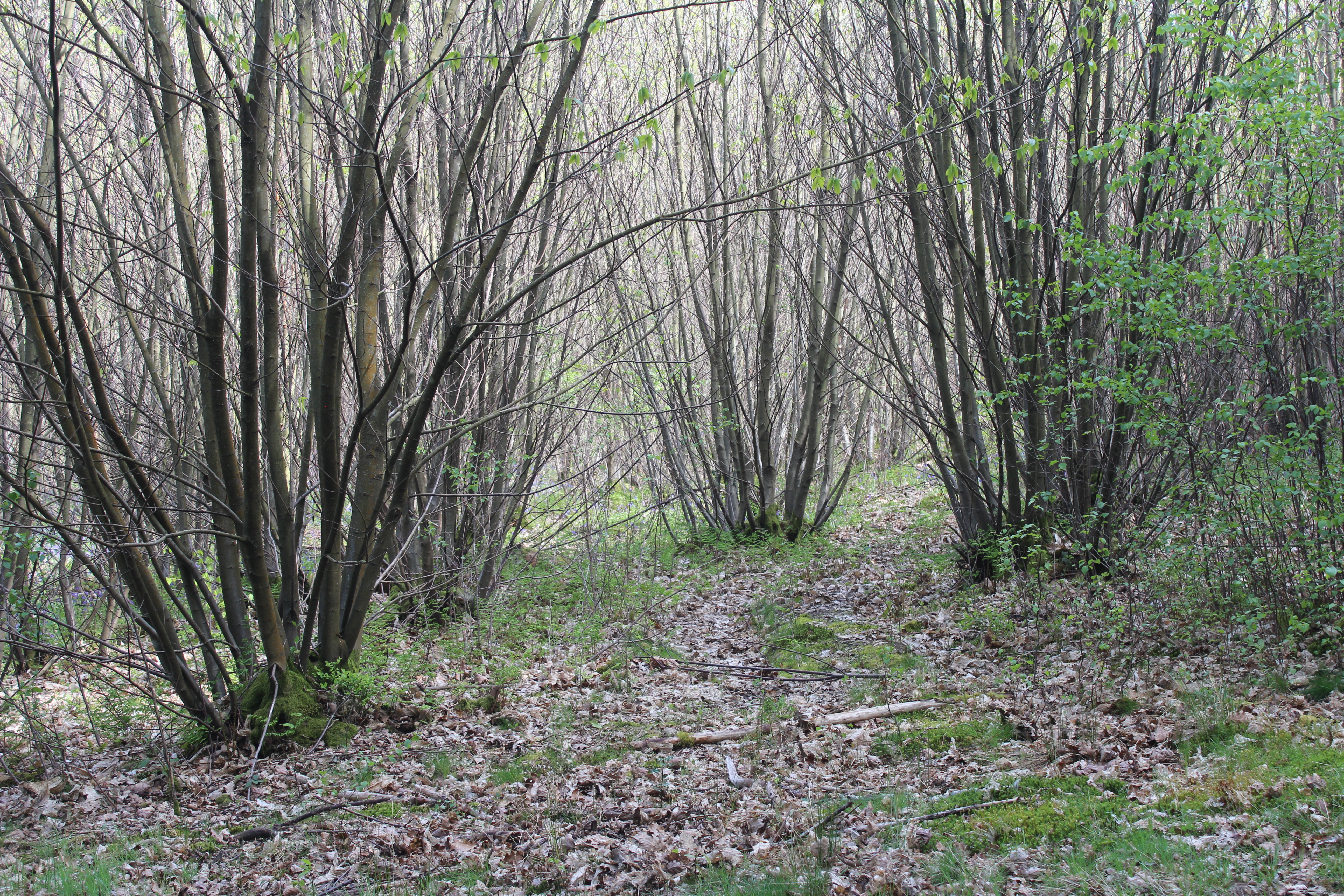 National Trust managed coppiced Sweet Chestnut woodland at Hindhead Common showing semi-mature sapplings that have sprouted from stumps (or stools) of trees that were felled several years previously. The sapplings, which are pole-like compared to the original tree provide a sustainable source of timber that can be used for poles and the like.